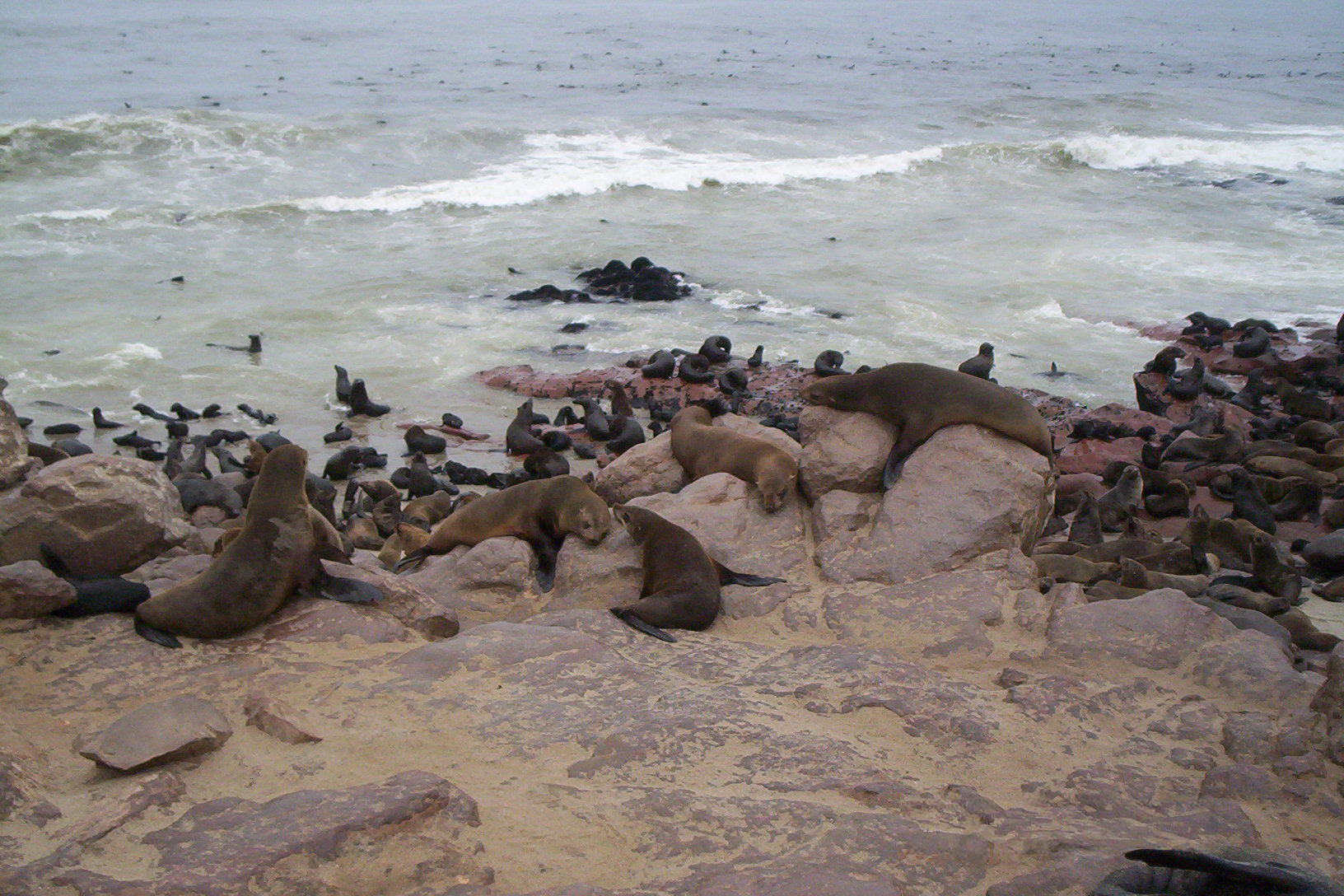 Seals on the Skeleton Coast